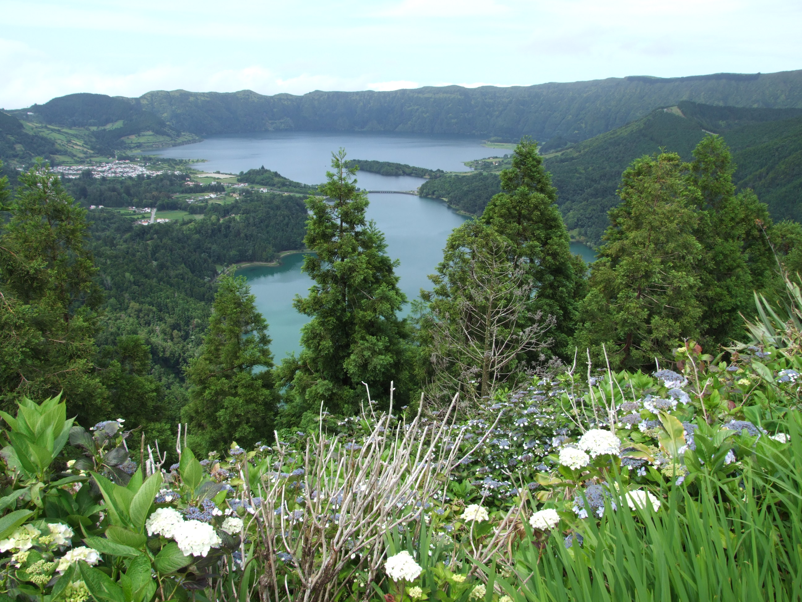 São Miguel, Sao-Miguel, Azores, Portugal